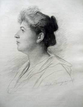 Portrait of Marie Delna, etching, 18 x 15 cm, published by L'Artiste